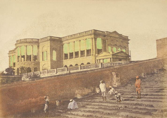 1851 photograph of Hooghly College at Chinsurah on the banks of the Hooghly river north of Calcutta. The College was renamed Hooghly Mohsin College in the late 1930s (when it moved to its present location) in commemoration of a philanthropic Muslim, Haji Mahomed Mohsin (d. 1812), who had deeded his considerable estate in trust "for the sake of God". In 1836, the Bengal government, using the money from the Mushin fund, established Hooghly College at the palatial home built by the late General Perron (born Pierre Cuellier) a Frenchman who had amassed a fortune after he became the commander-in-chief of the Scindia army. Hand-colored salt print by Frederick Fiebig, 1851.